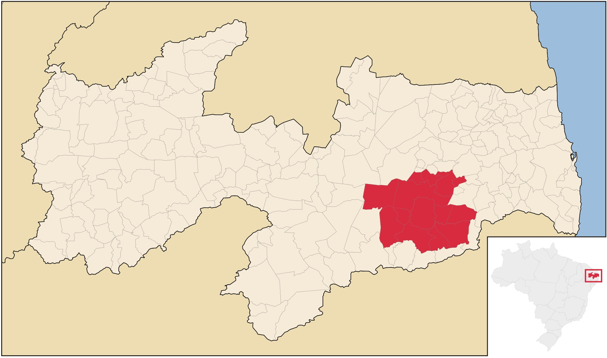 Map of Campina Grande Metropolitan region, Paraíba, Brazil